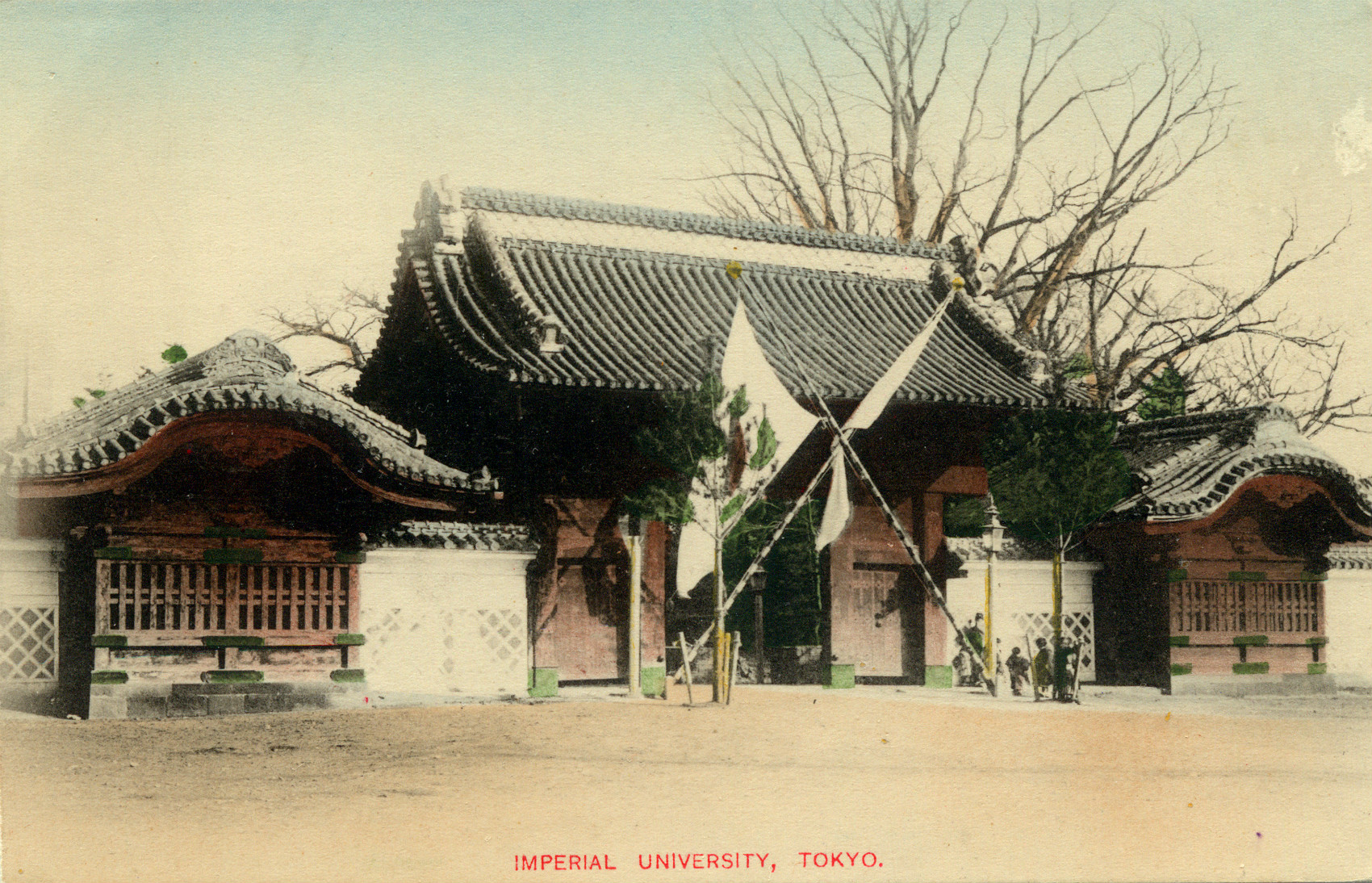 The original Akamon, Tokyo University, c. 1905